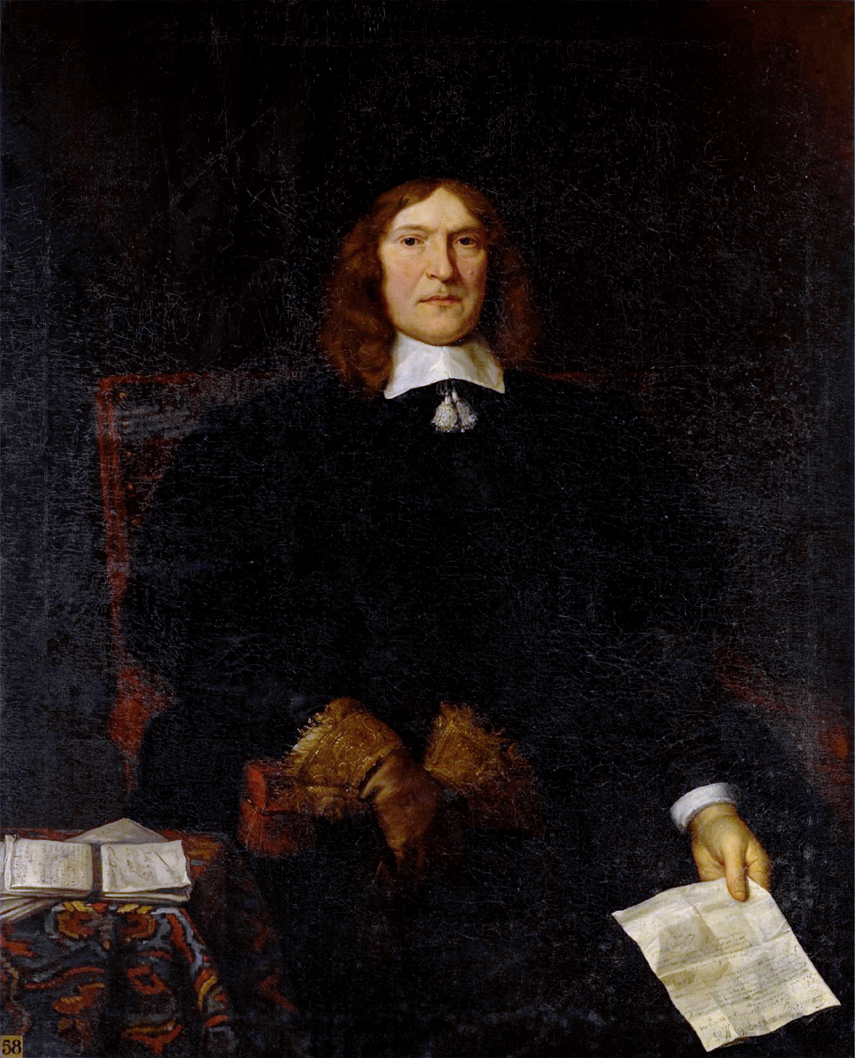 John Vaughan (1603-1674) 127 by 101.5 cm oil on canvas